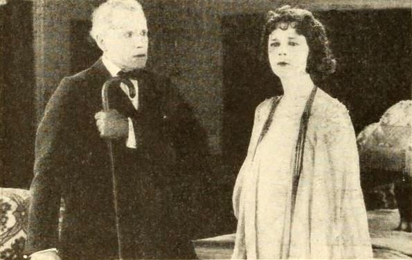 Still from the American drama film Sowing the Wind (1921) with Anita Stewart, on page 58 of the September 1921 Photoplay.